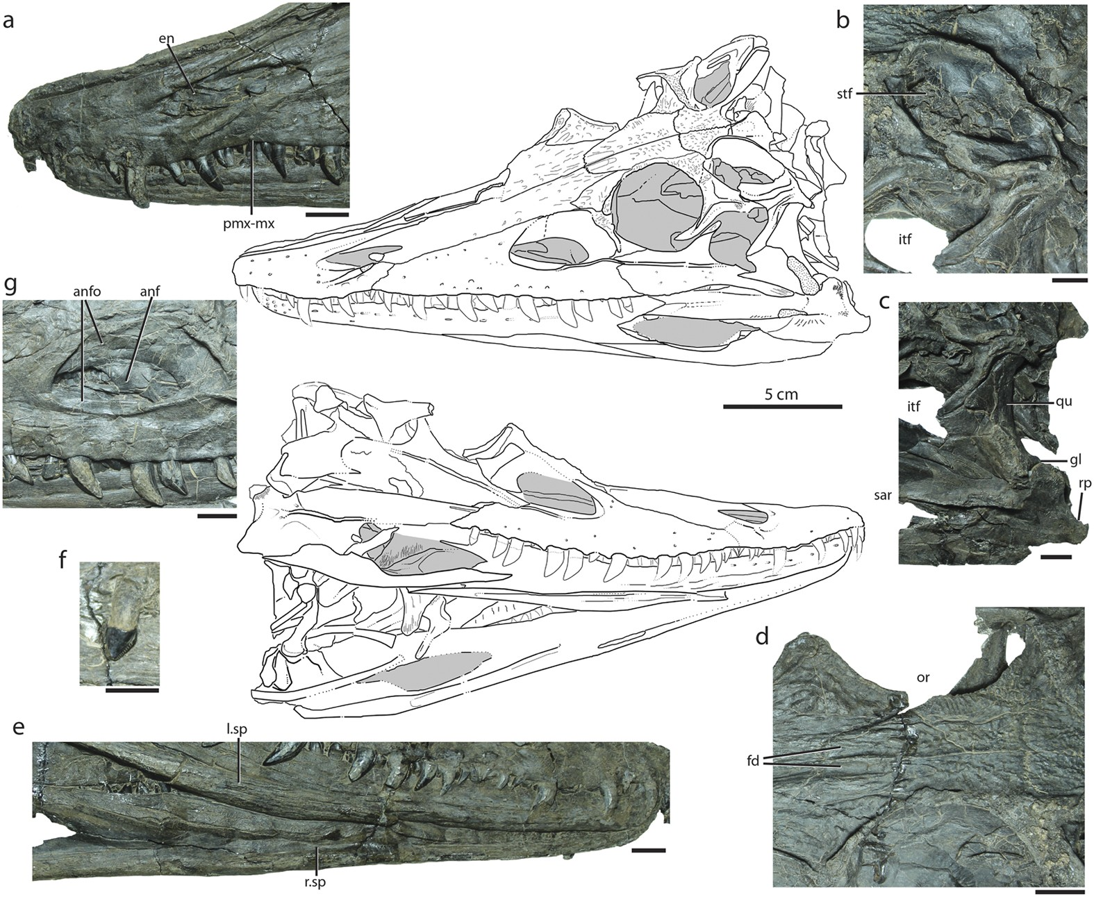 Holotype specimen of Diandongosuchus fuyuanensis (ZMNH M8770), showing relevant cranial features shared with Phytosauria.